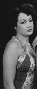 Gloria Ugarte- actriz argentina